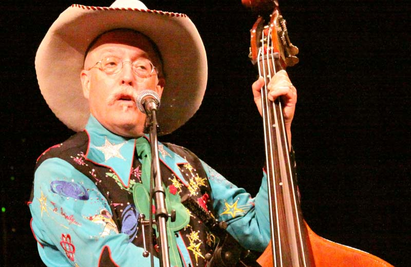 Too Slim (Fred LaBour) performs at the Poncan Theater in Ponca City, Oklahoma on November 7, 2008. Any use of this photo must include a photo attribution to Hugh Pickens and a link to Hugh Pickens.